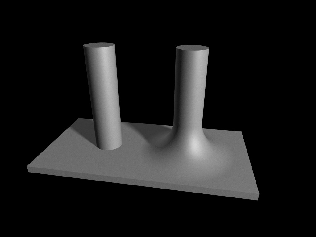 Non-filleted cylinder on the left, a filleted cylinder on the right.